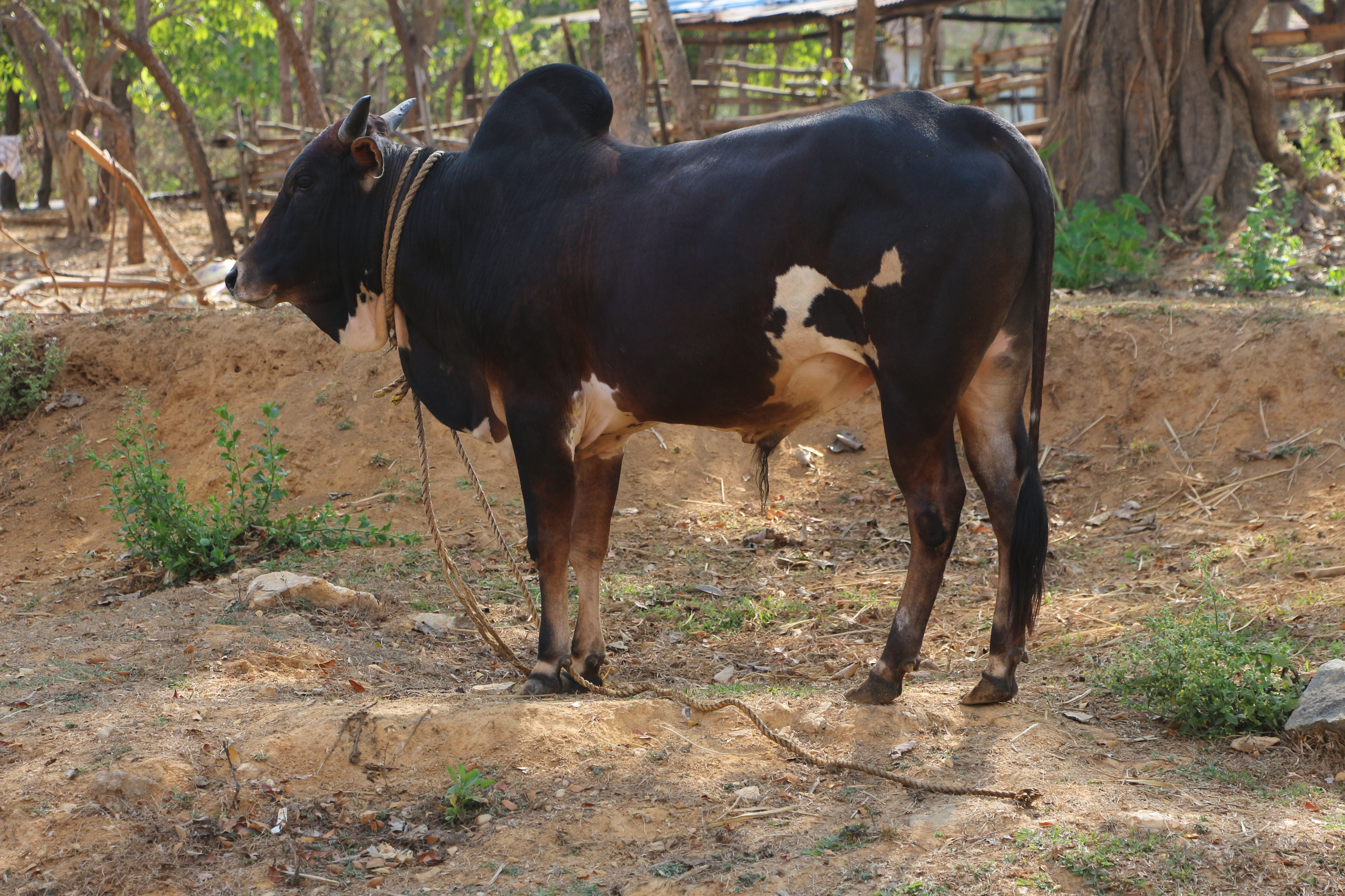 Indian cow breed Nimariಕನ್ನಡ: ಭಾರತೀಯ ಗೋತಳಿ ನಿಮಾರಿ